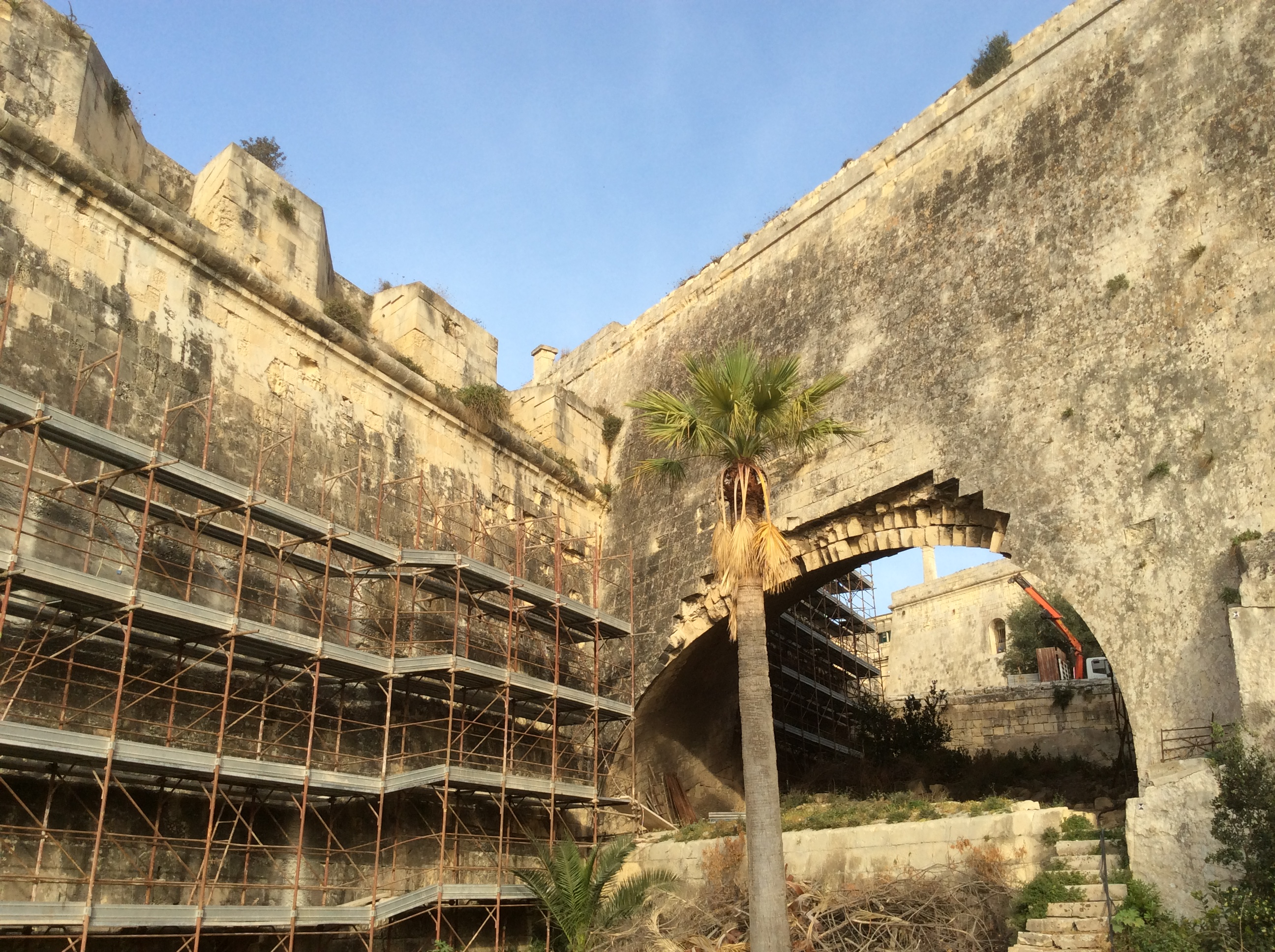 Floriana Lines This media is about Maltese cultural property with inventory number 01617.